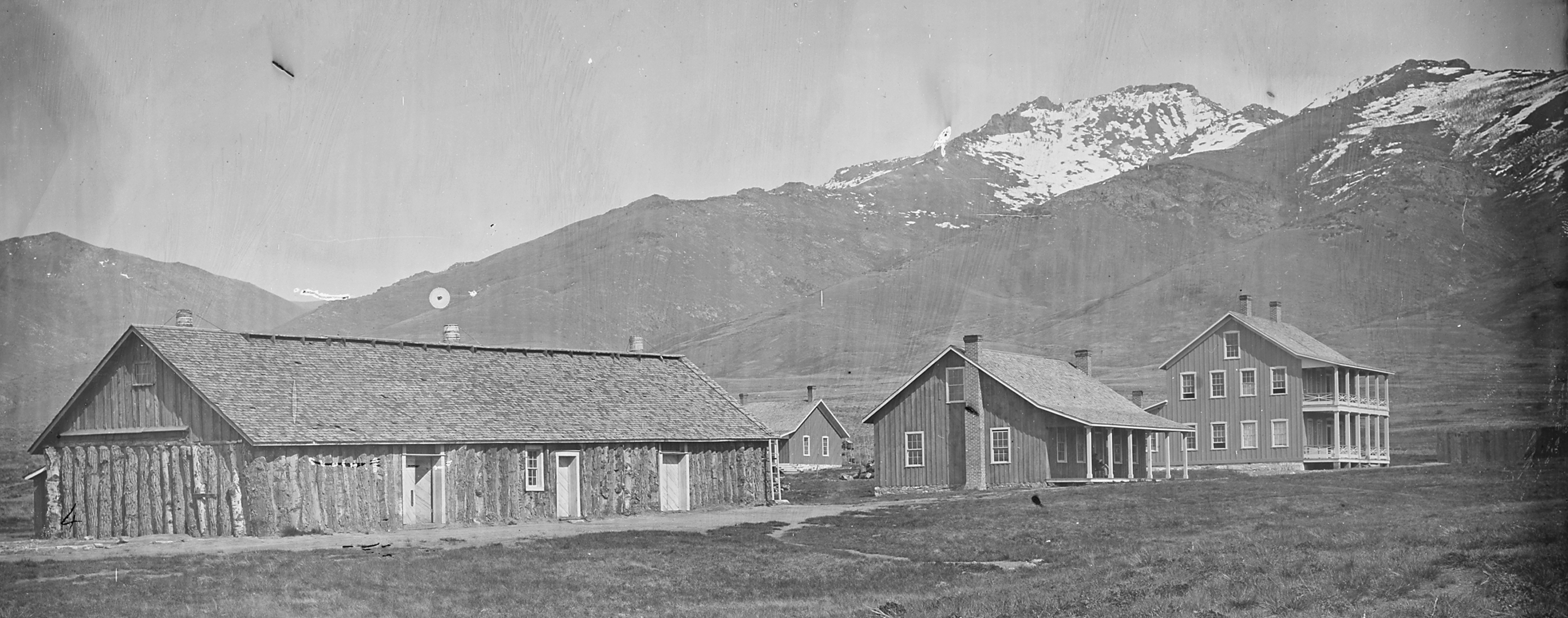 General notes: Fort Halleck (1879-1886; U. S. Army . First established as Camp Halleck in (1867-1879), to protect the California Trail and the construction of the Central Pacific Railroad. Present day Halleck, Elko County, Nevada.